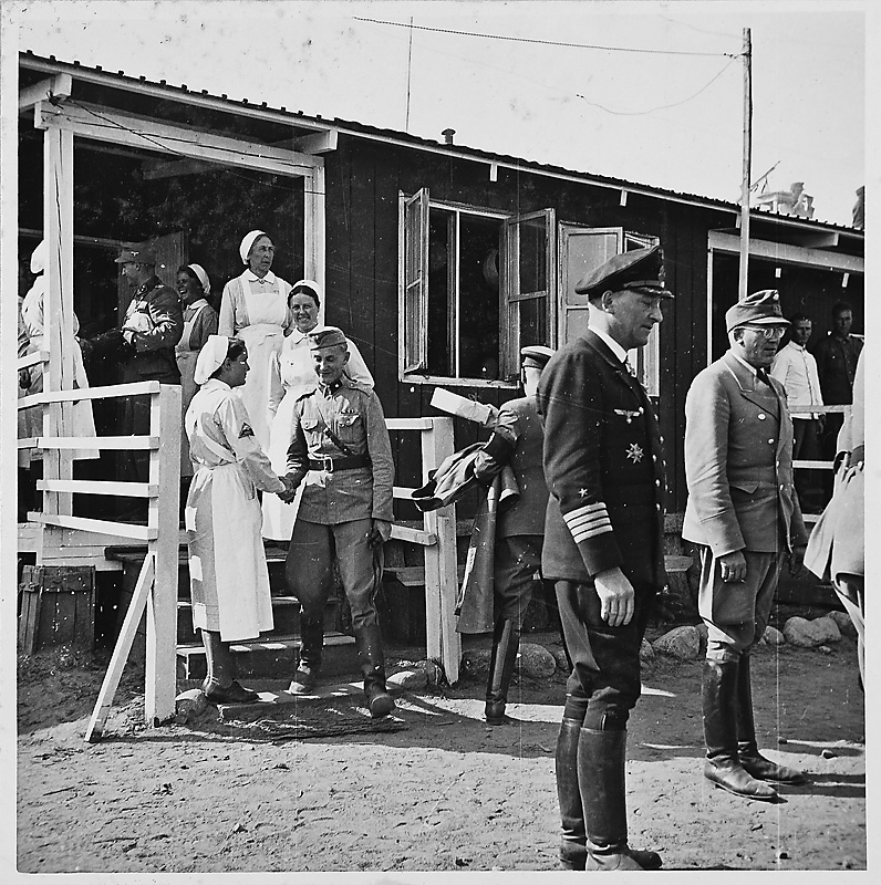 Image from "Photo Album from Terboven's journey to Nothern Norway and Finland 10–27 July 1942" (Mit dem Reichskommissar nach Nordnorwegen und Finnland 10. bis 27. Juli 1942), 375 images uploaded to www. by Riksarkivet (National Archives of Norway) 2012. See scanned album here